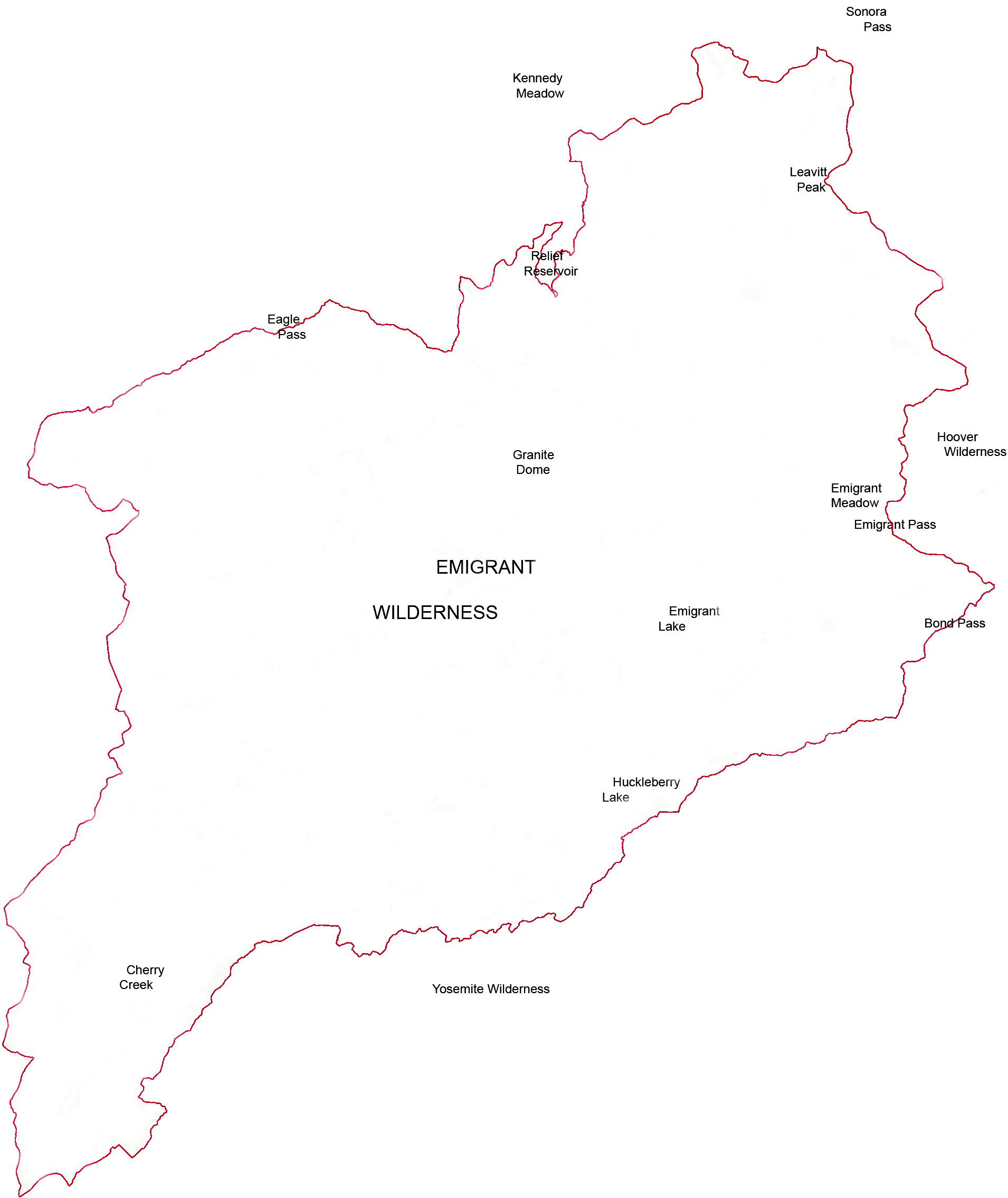 Outline map of the Emigrant Wilderness, with prominent peaks, passes, and lakes labeled. Sierra Nevada mountains, California.